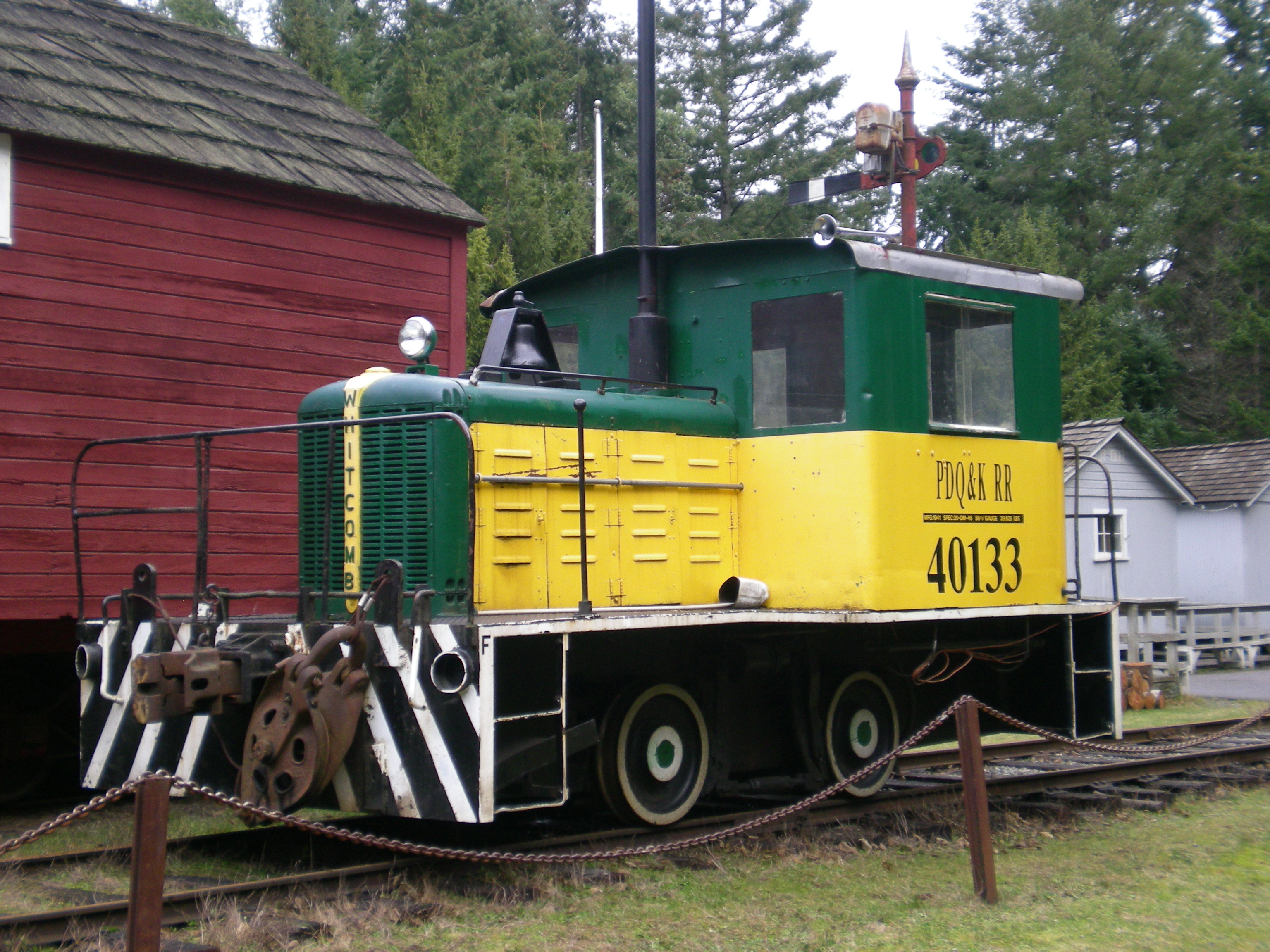 A Whitcomb train engine at the Camp Six Logging Museum at Point Defiance Park in Tacoma, Washington